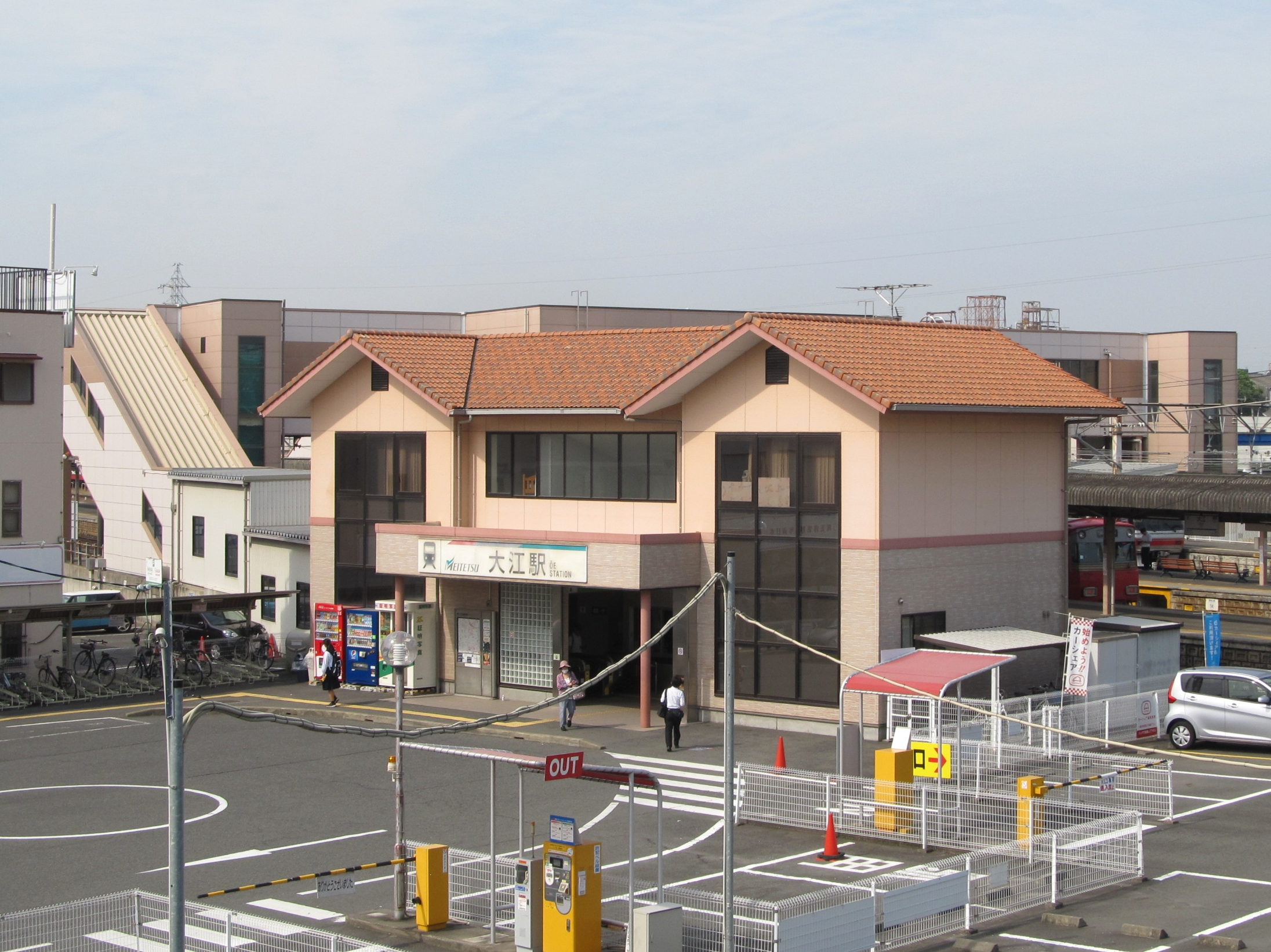 Nagoya Railroad Tokoname Line Ōe Station Building